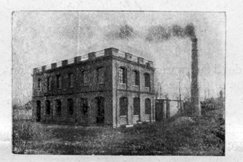 Ivrea, La fabbrica di mattoni rossi (the red bricks factory) I's fhe first Olivetti's factory, 1895